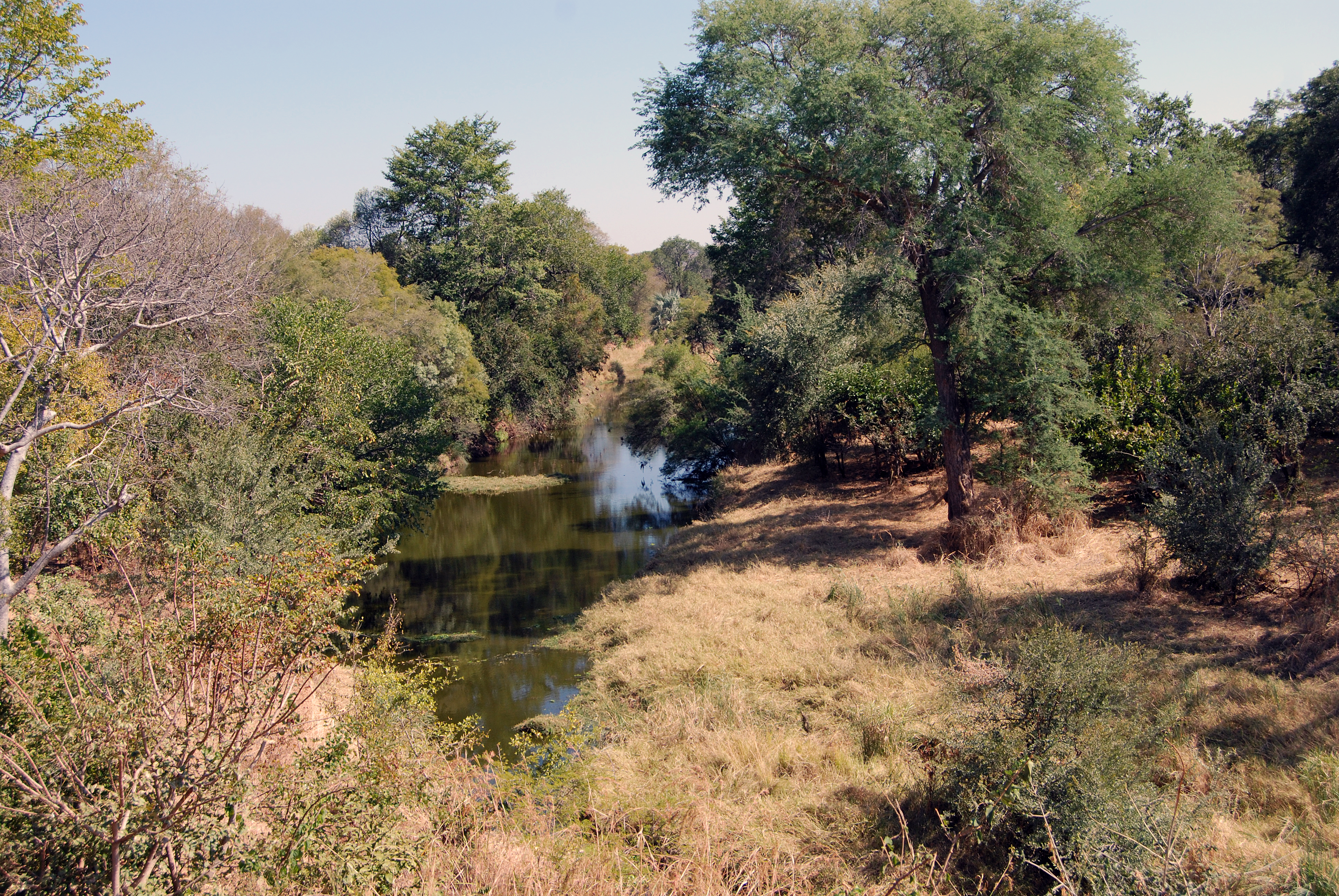 At the Wild Horizons Wildlife Trust in the Zambezi National Park, Victoria Falls, Zimbabwe, a non-profit organization whose mission is to advance and promote environmental conservation in southern Africa